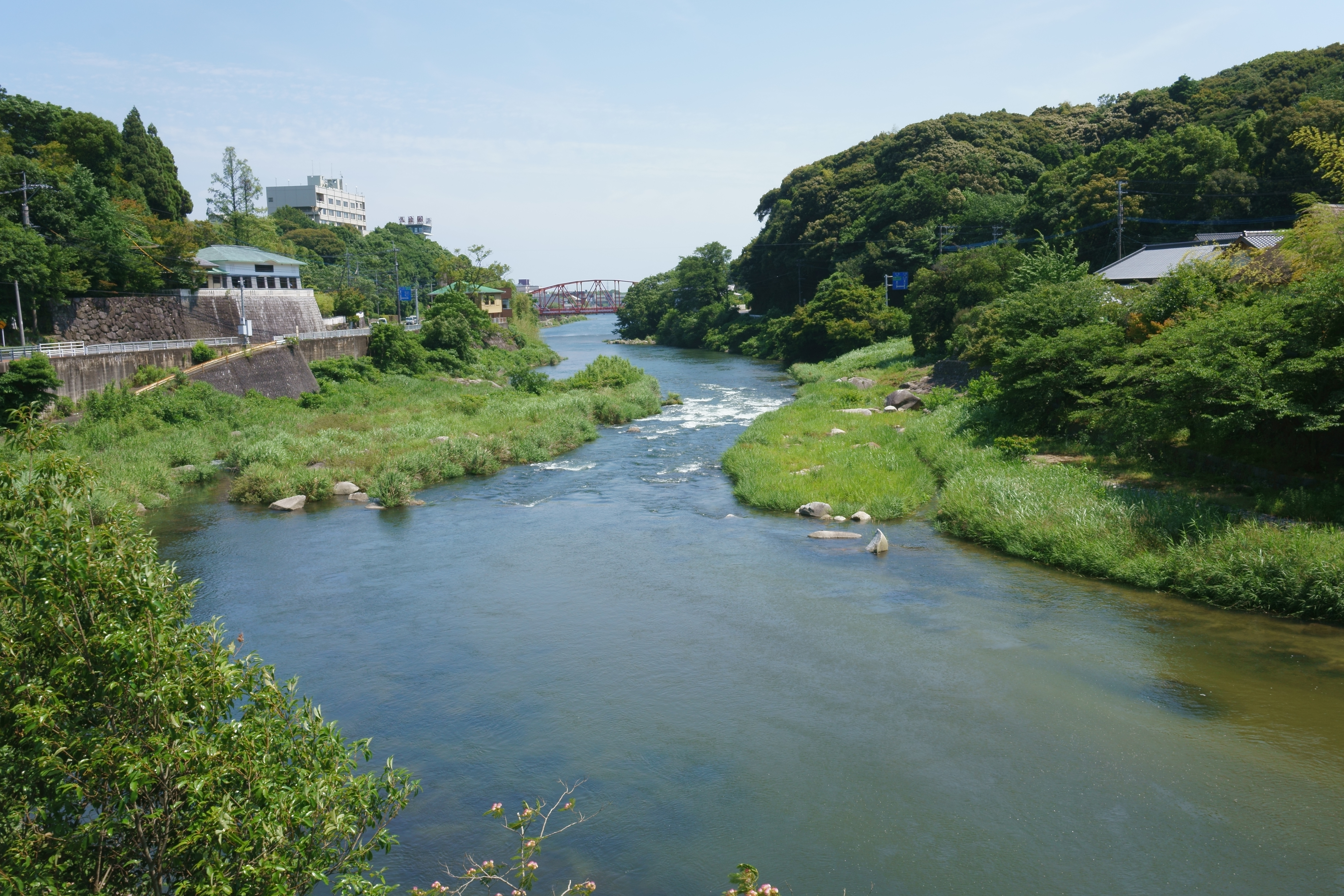 Kawakami-kyo Ravine in the middle of Kase River, in Yamato-cho, Saga city, Saga prefecture, Japan.